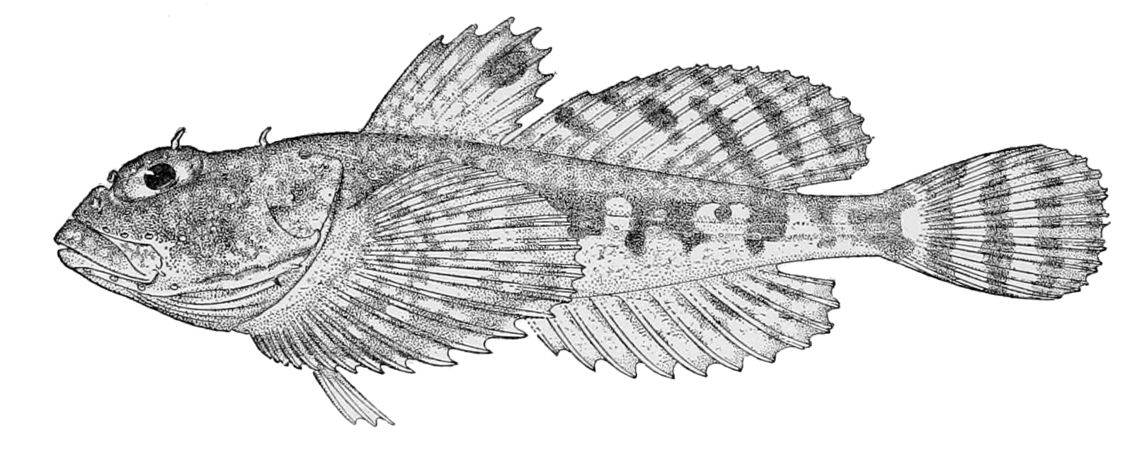 Artediellus miacanthus